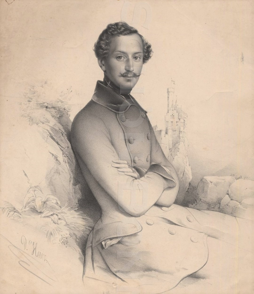 Friedrich Wilhelm Alexander Ferdinand Graf von Württemberg, ab 1867 Wilhelm I. Herzog von Urach, c. 1838 (im Hintergrund das von ihm erbaute Schloss Lichtenstein). Lithographie von Dominik Haiz